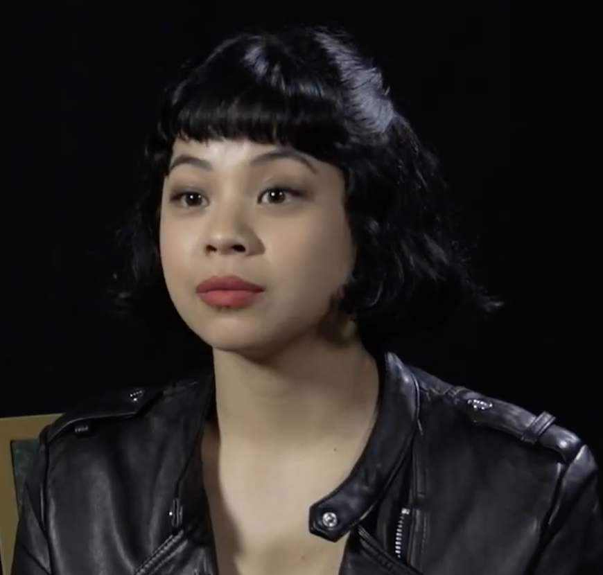 Eva Noblezada interviewed by The Tony Awards in 2019